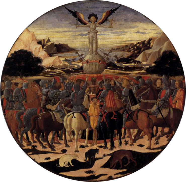 (a Birth Salver)